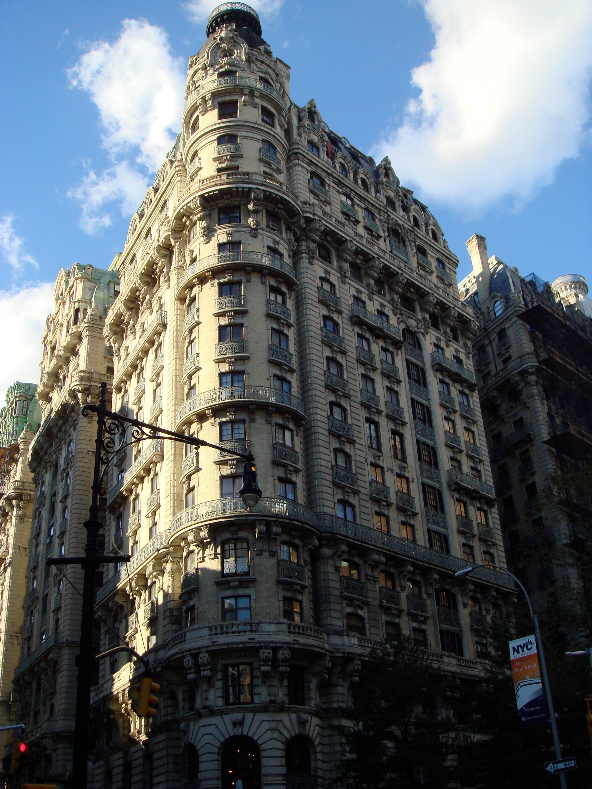 The Ansonia Building in the Upper West Side.